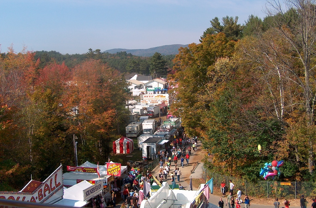 View of the Sandwich Fair, Sandwich, in 2007